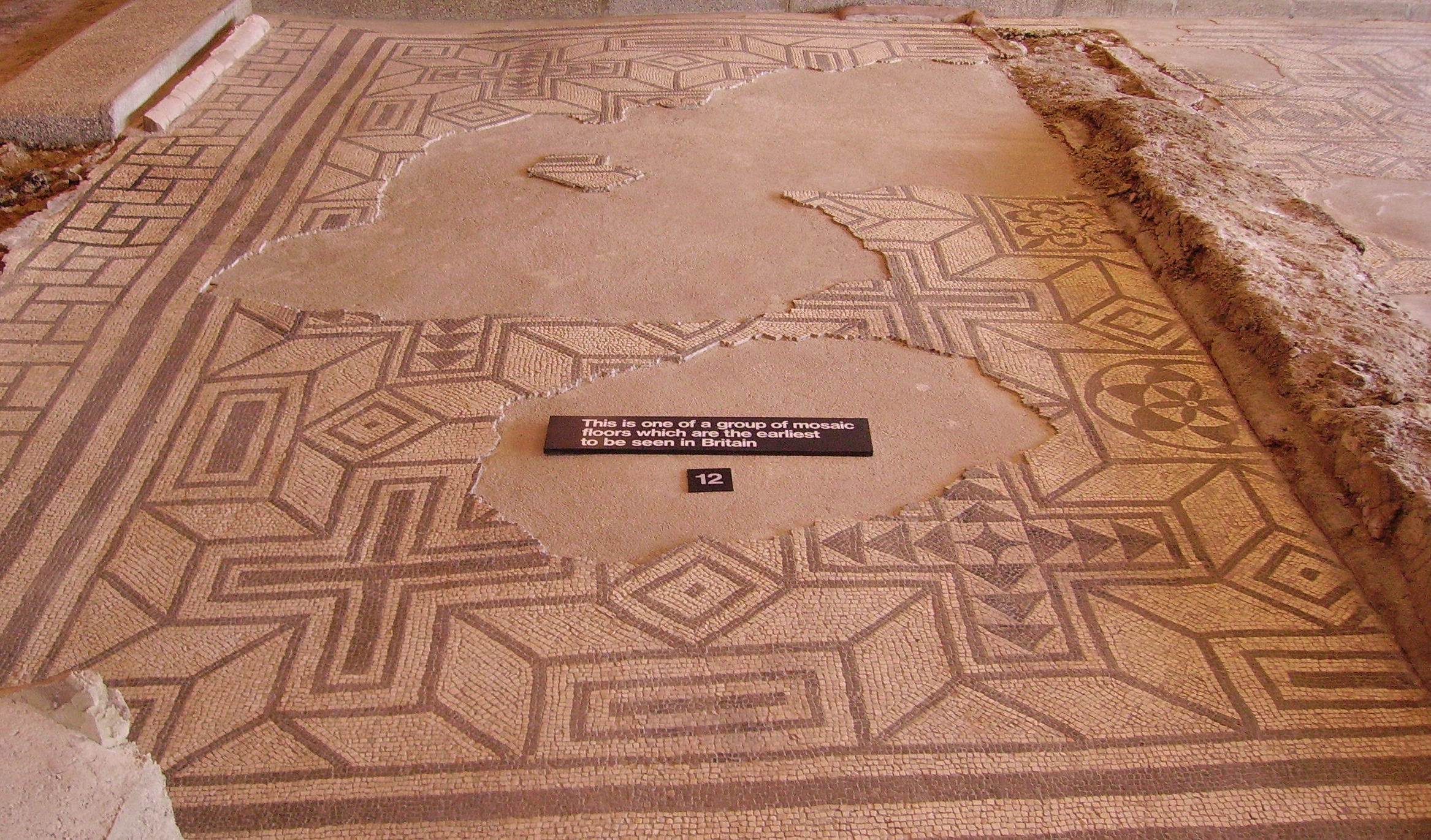 view of Fishbourne Roman Palace in West Sussex, United Kingdom